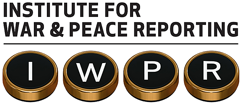 Logo of the Institute for War & Peace Reporting, an international media development charity, established in 1991.